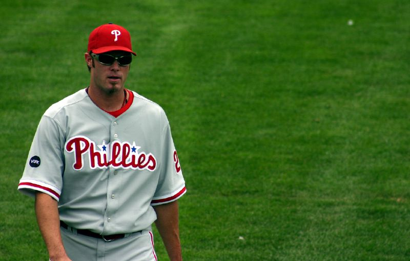 Jayson Werth at Wrigley Field during a 2007 game vs. the Cubs.